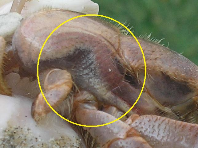 Anatomy gill part of a caribbean crab